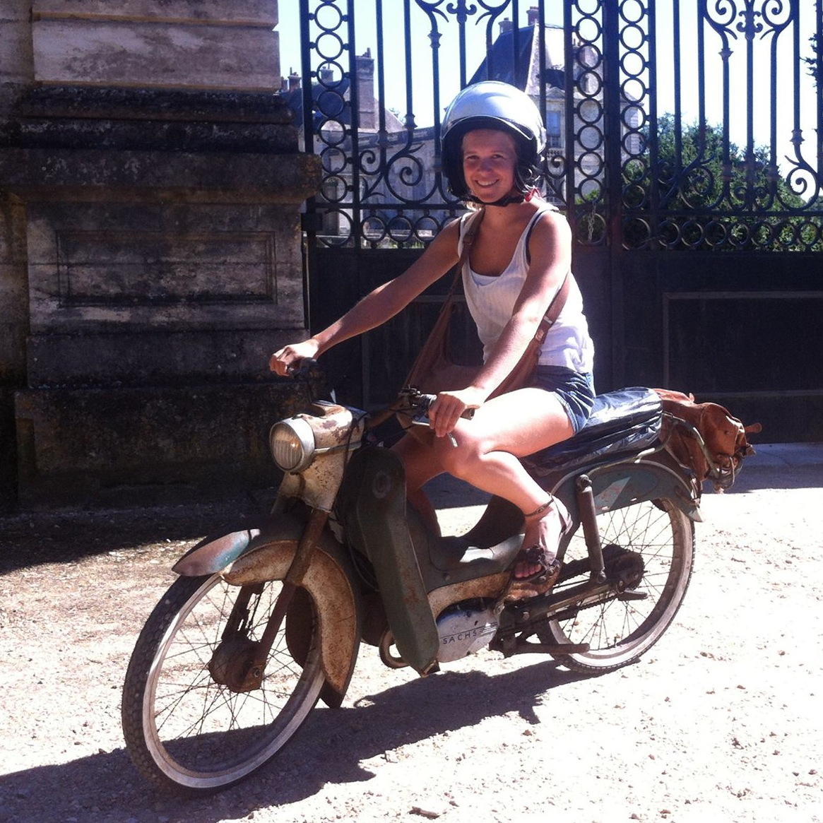 paris sport 50cc